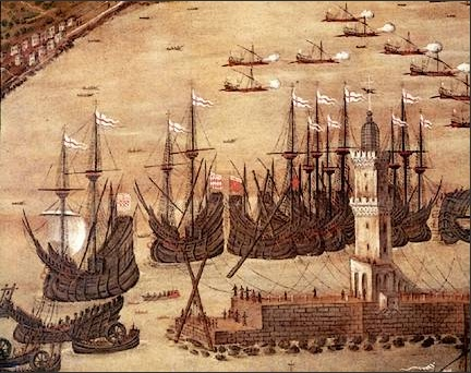 Detail of a painting by Cristoforo de' Grassi, created in 1481 and preserved in the Civic Naval Museum of Pegli, depicting the port of Genoa.